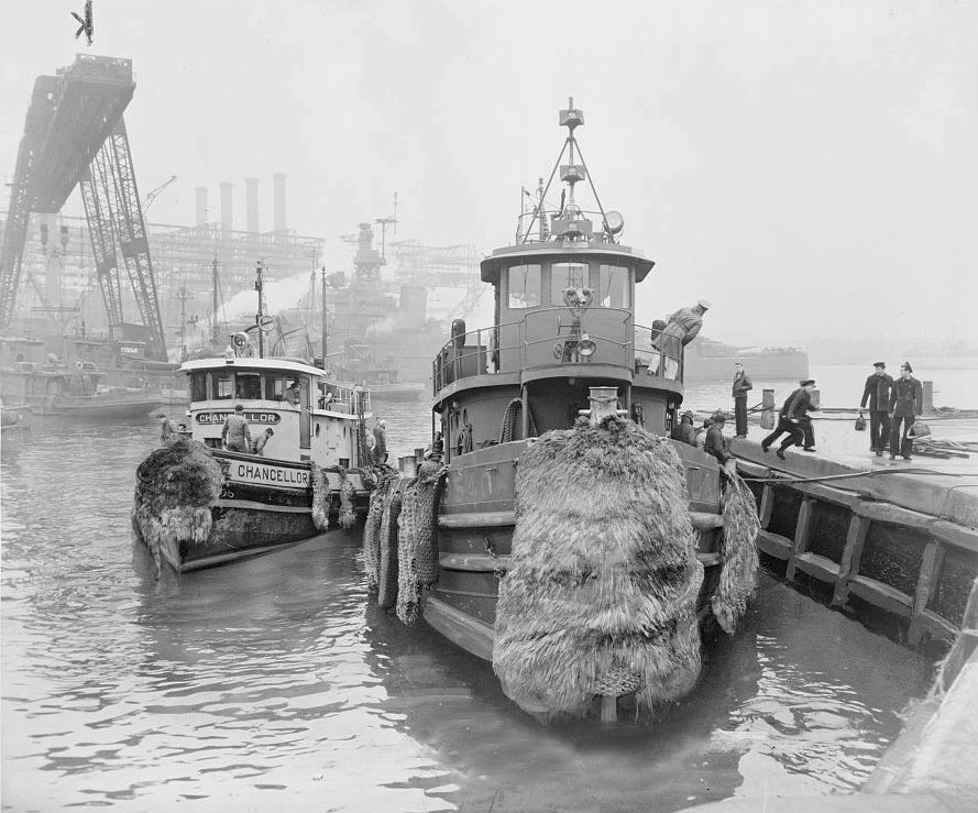 United States Navy large harbor tug USS Quileute (YTB-540) at the New York Navy Yard in Brooklyn, New York, with the civilian tug Chancellor at left.